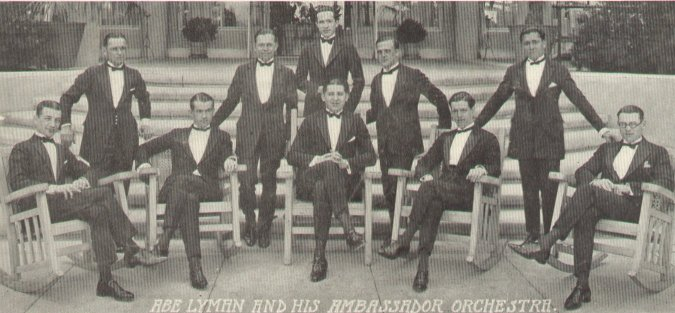 Larger version of Abe Lyman Orch Abe Lyman & Hotel Ambassador Orchestra, from 1922 sheet music cover, scanned by Infrogmation (talk) from original in own collection